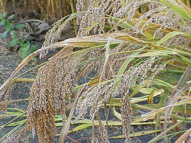 Species: Panicum miliaceum Family: ' Image No. 2